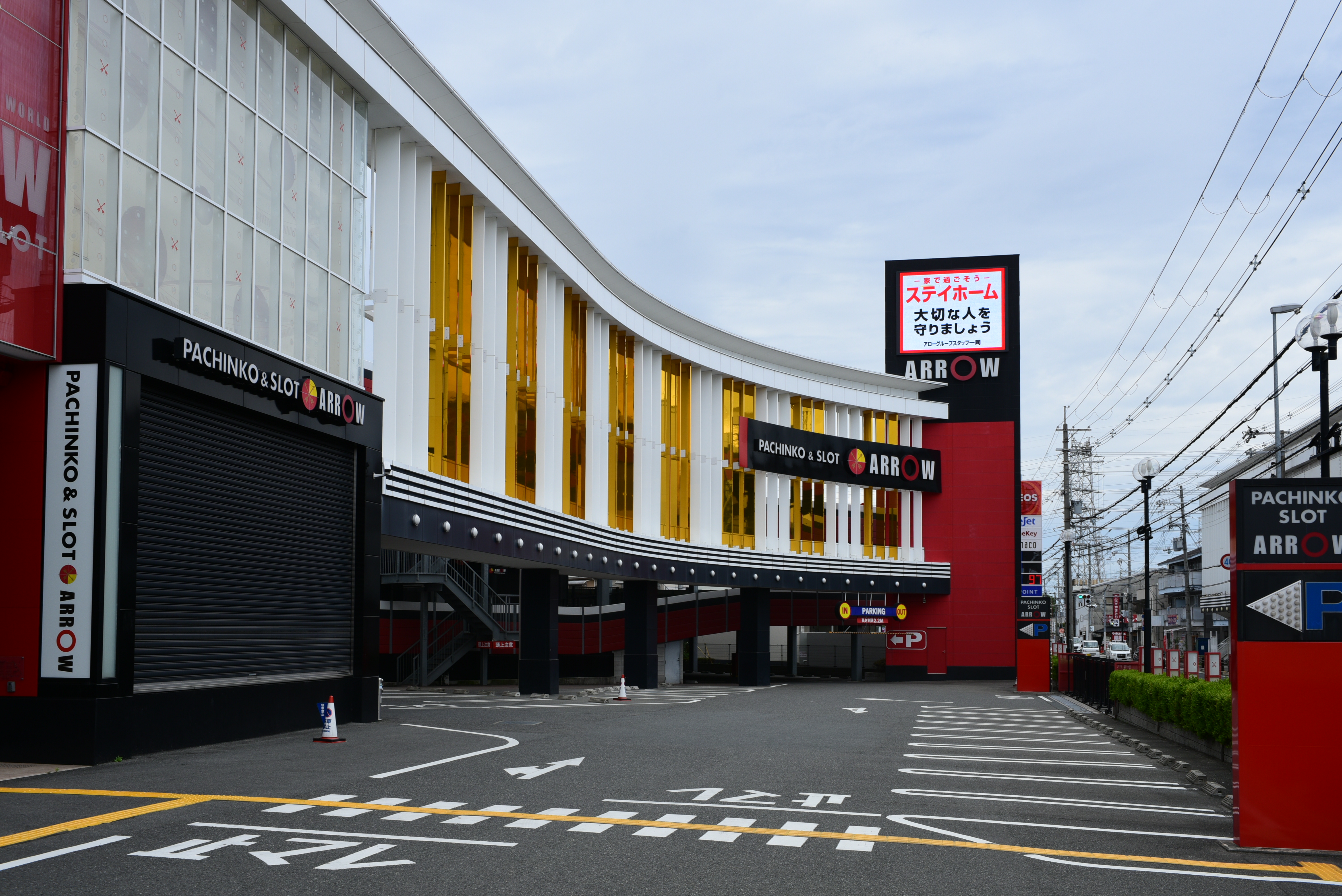 Stay home and save your family, even a Japanese pachinko parlor closed the shop and said.